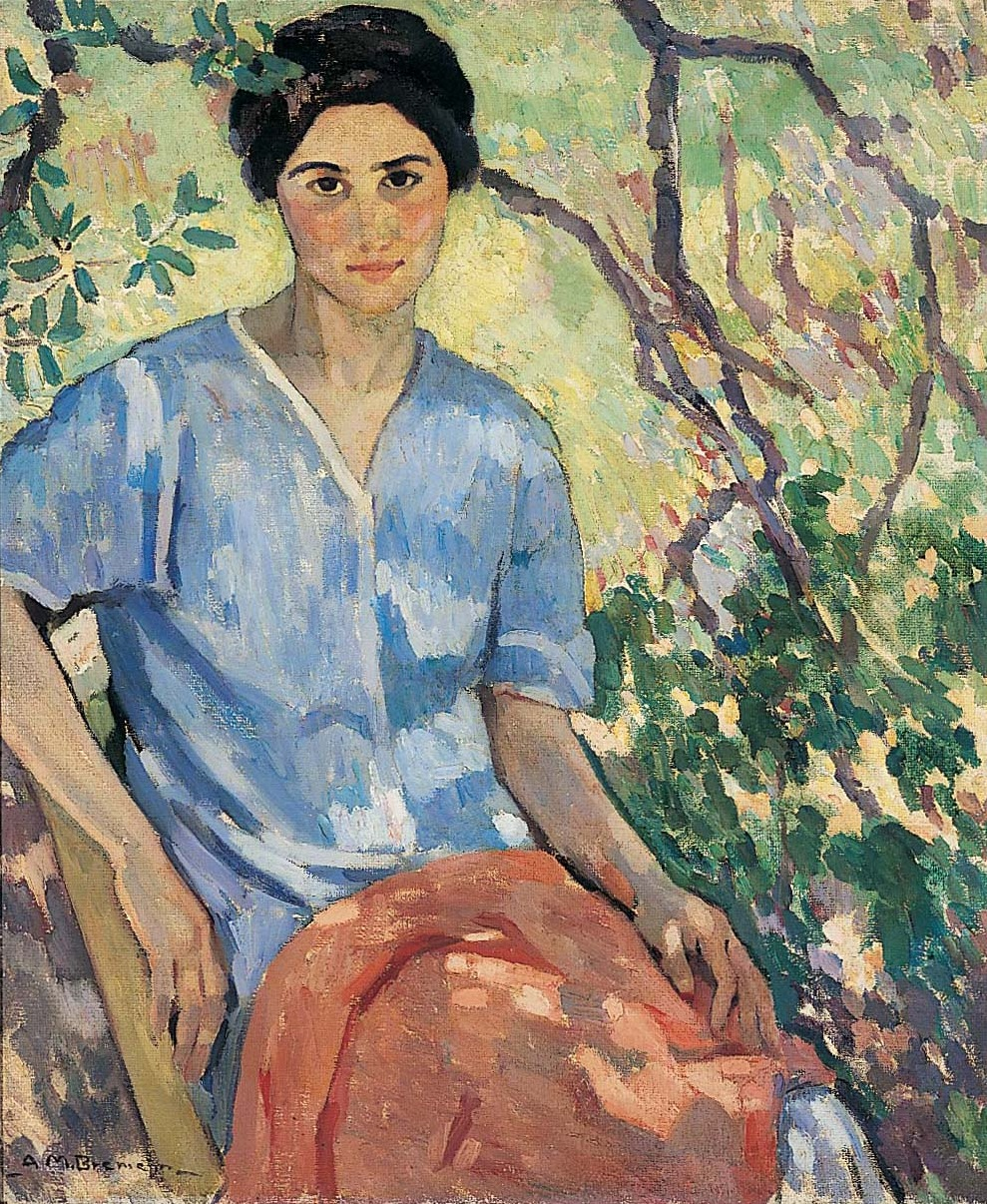 Ravenlocks by Anne Bremer Located at Mills College Art Museum (United States). Painting - oil on canvas. Height: 77.47 cm (30.5 in.), Width: 63.5 cm (25 in.). Details from